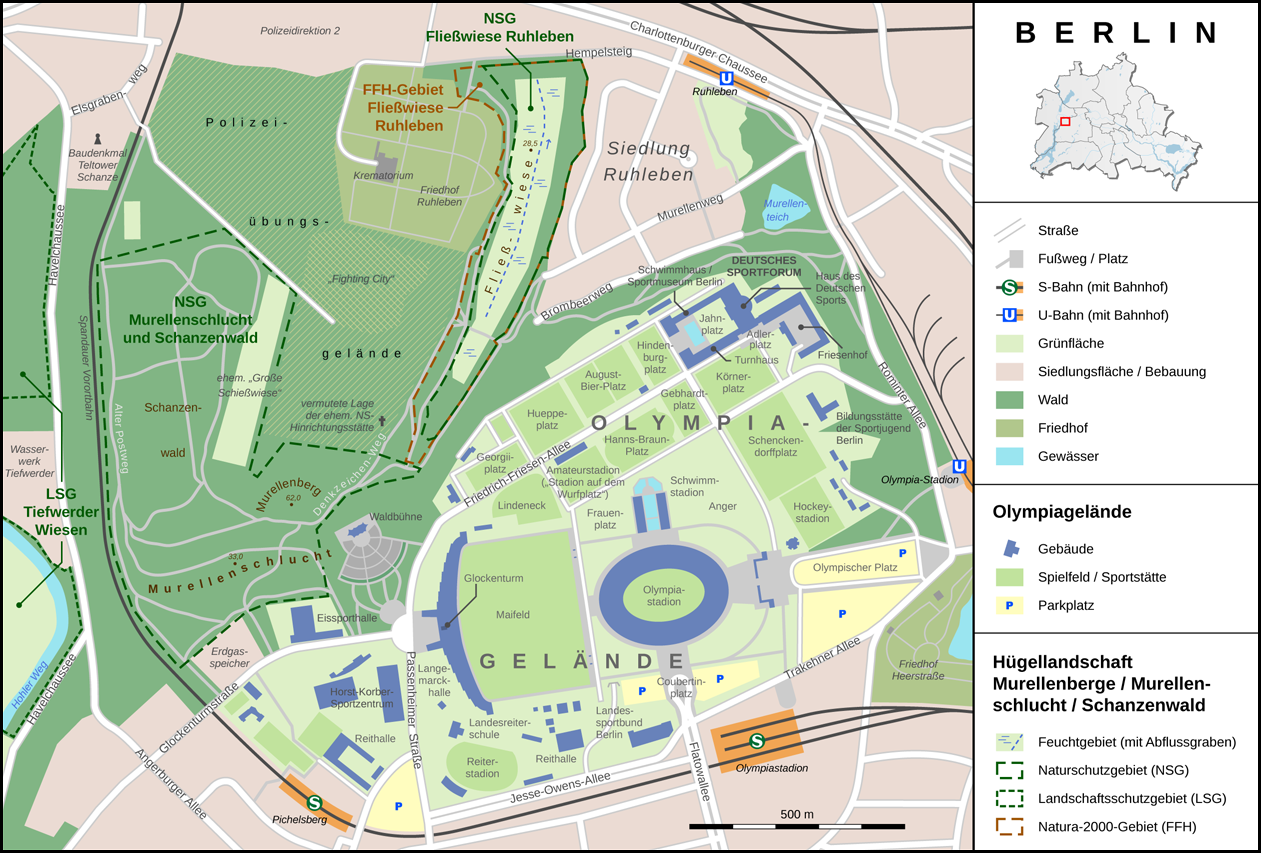 Map of the Olympic grounds of Berlin and the adjacent nature reserves